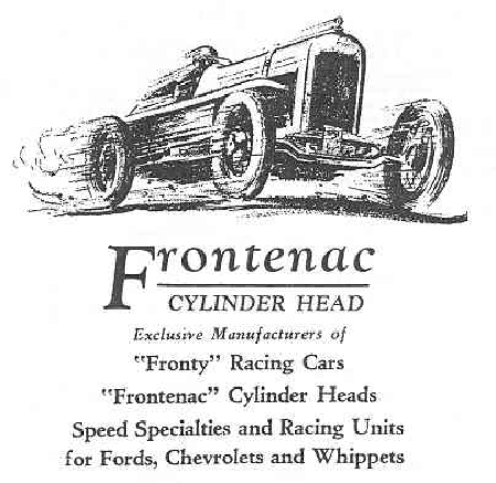 Frontenac Motor Company Advertisement